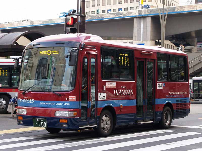 Tokyu Transsess bus at Shibuya Station, Tokyo.